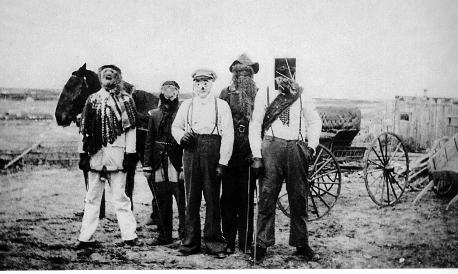 Mi-carême troup in St. Joseph du Moine, Nova Scotia, in 1930. Photo from the Collection Centre de la Mi-Carême.